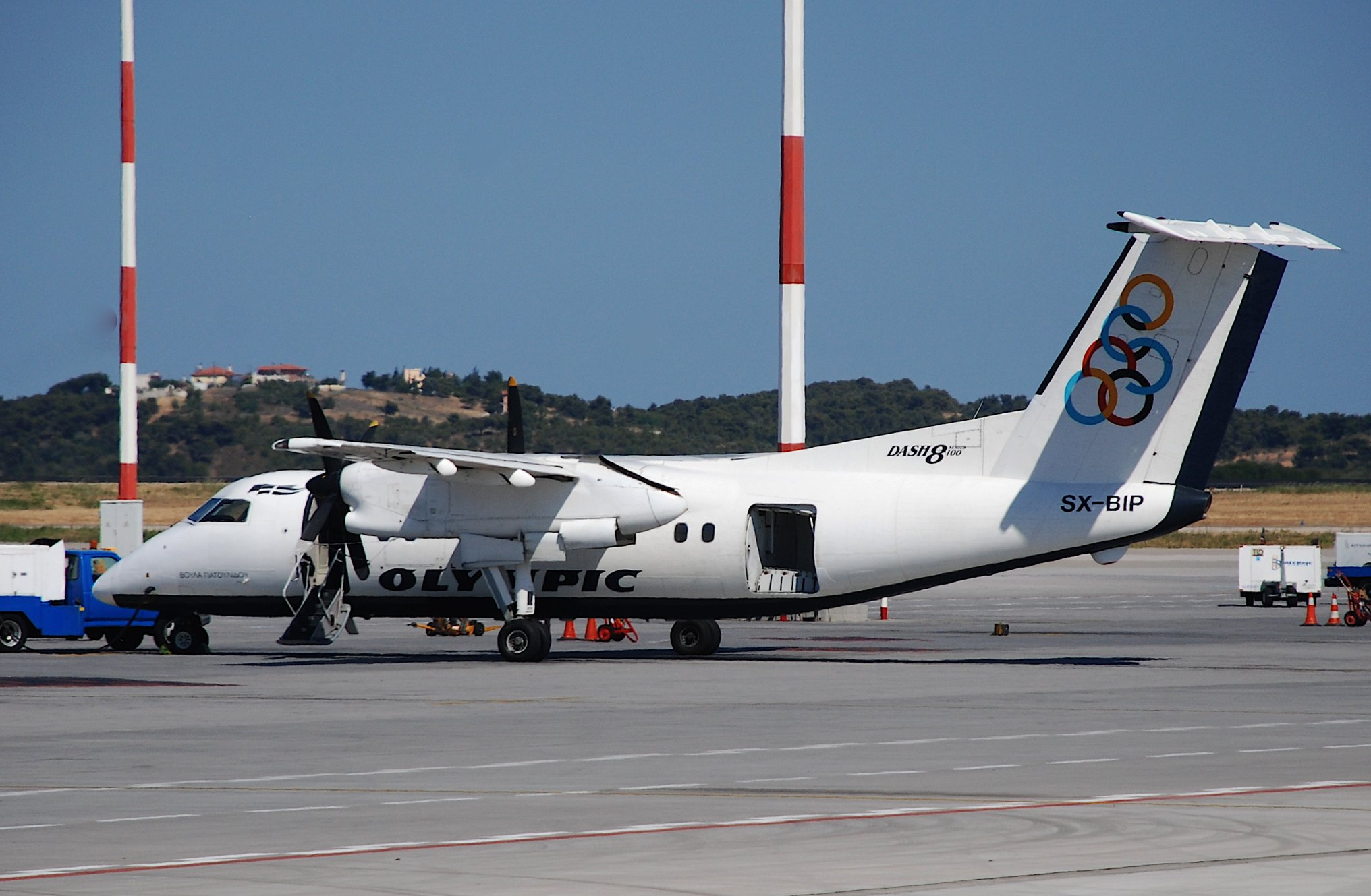 Olympic Airlines DHC-8-100 Dash 8; SX-BIP@ATH;14.06.2009/540ak